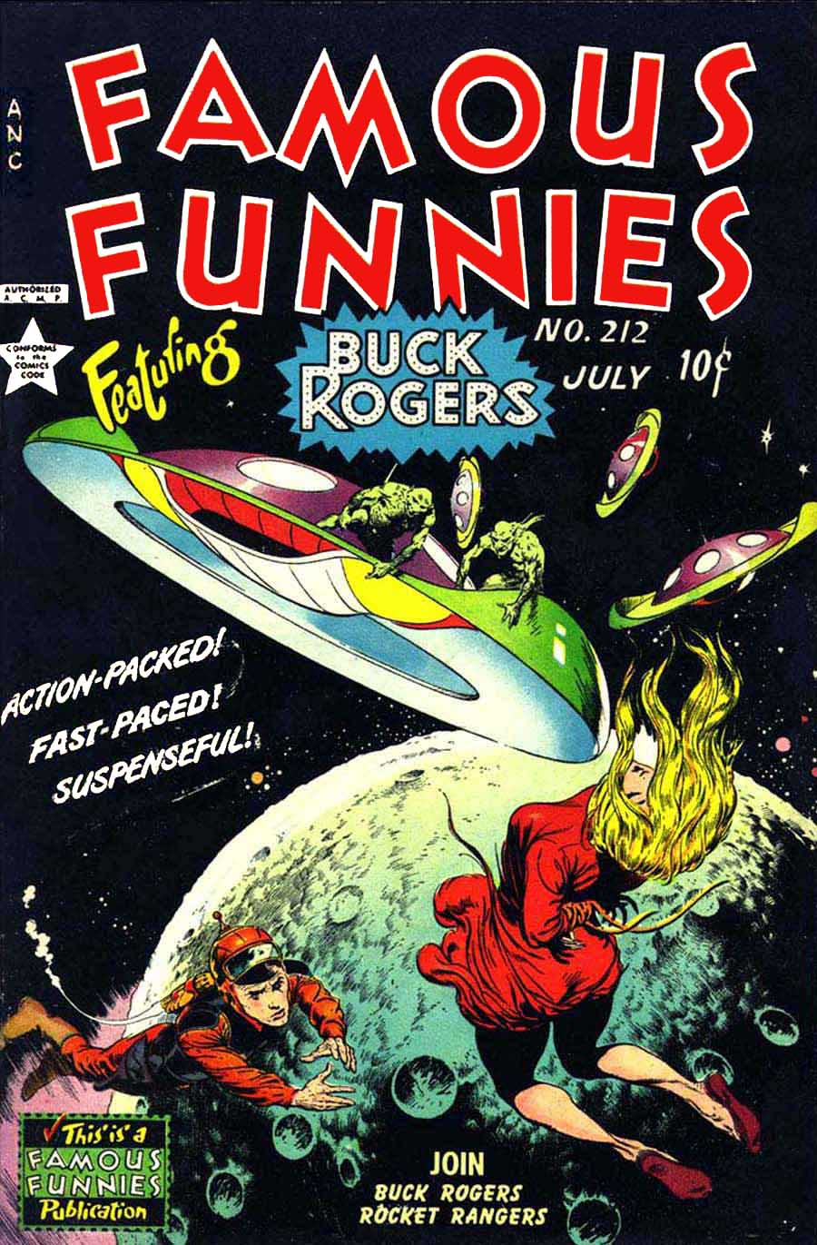 Cover of Famous Funnies number 212 (July 1954), featuring artwork by Frank Frazetta. Publisher: Eastern Color